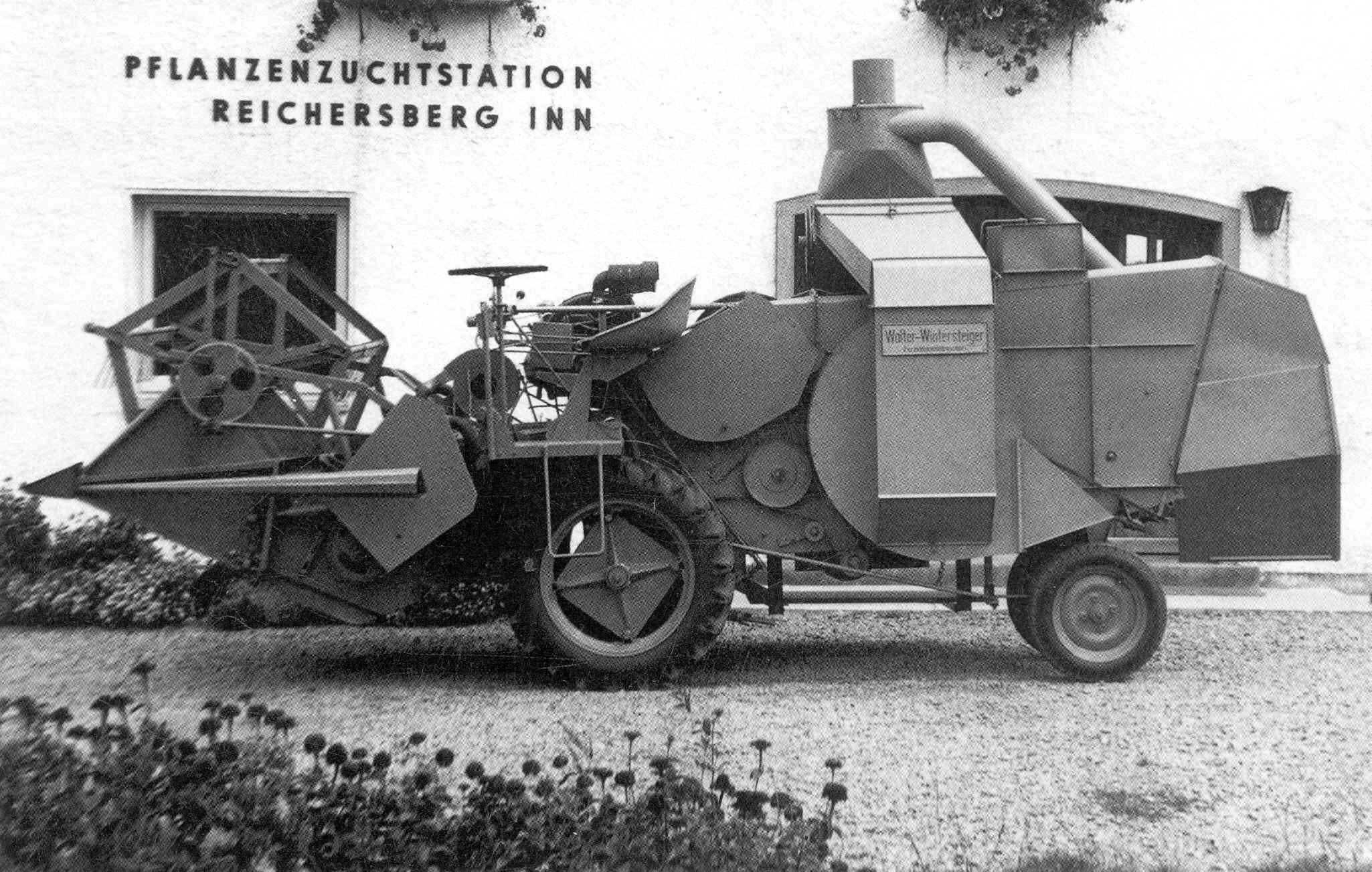 Walter-Wintersteiger plot combine harvester (prototype?) in front of the Pflanzenzuchtstation Reichersberg Inn, Austria. – The first plot combine harvester was produced in volume/serial production in 1960.